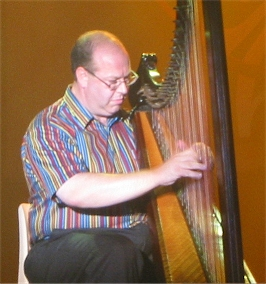 Robin Huw Bowen at the Lorient Interceltic Festival in 2002